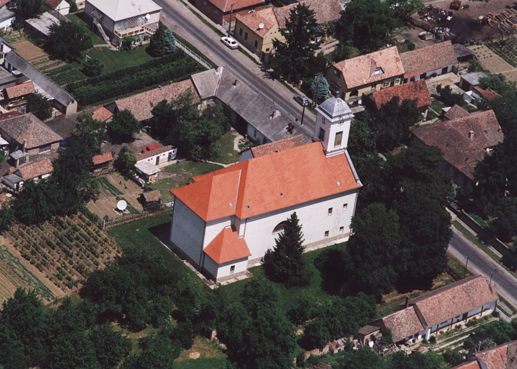 Temple - Hosszúhetény, Hungary, aerial photography